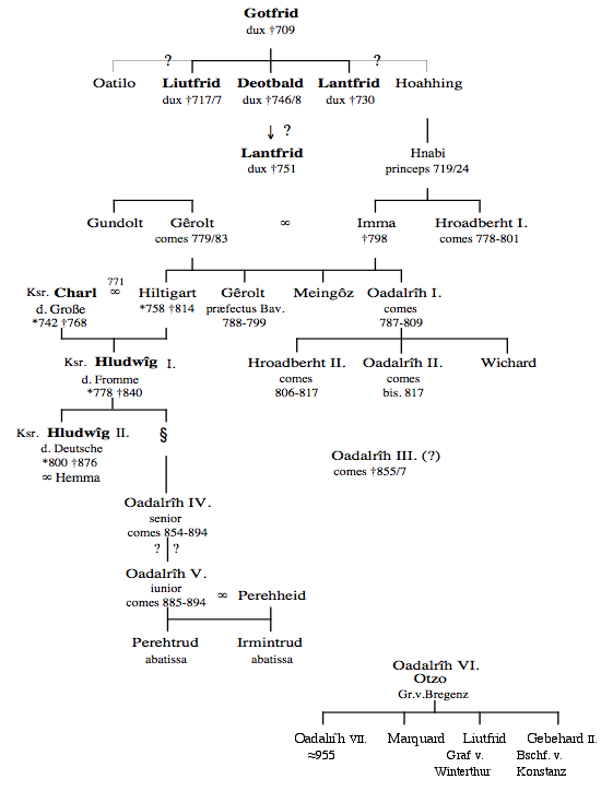 pedigree of the Udalrichinger